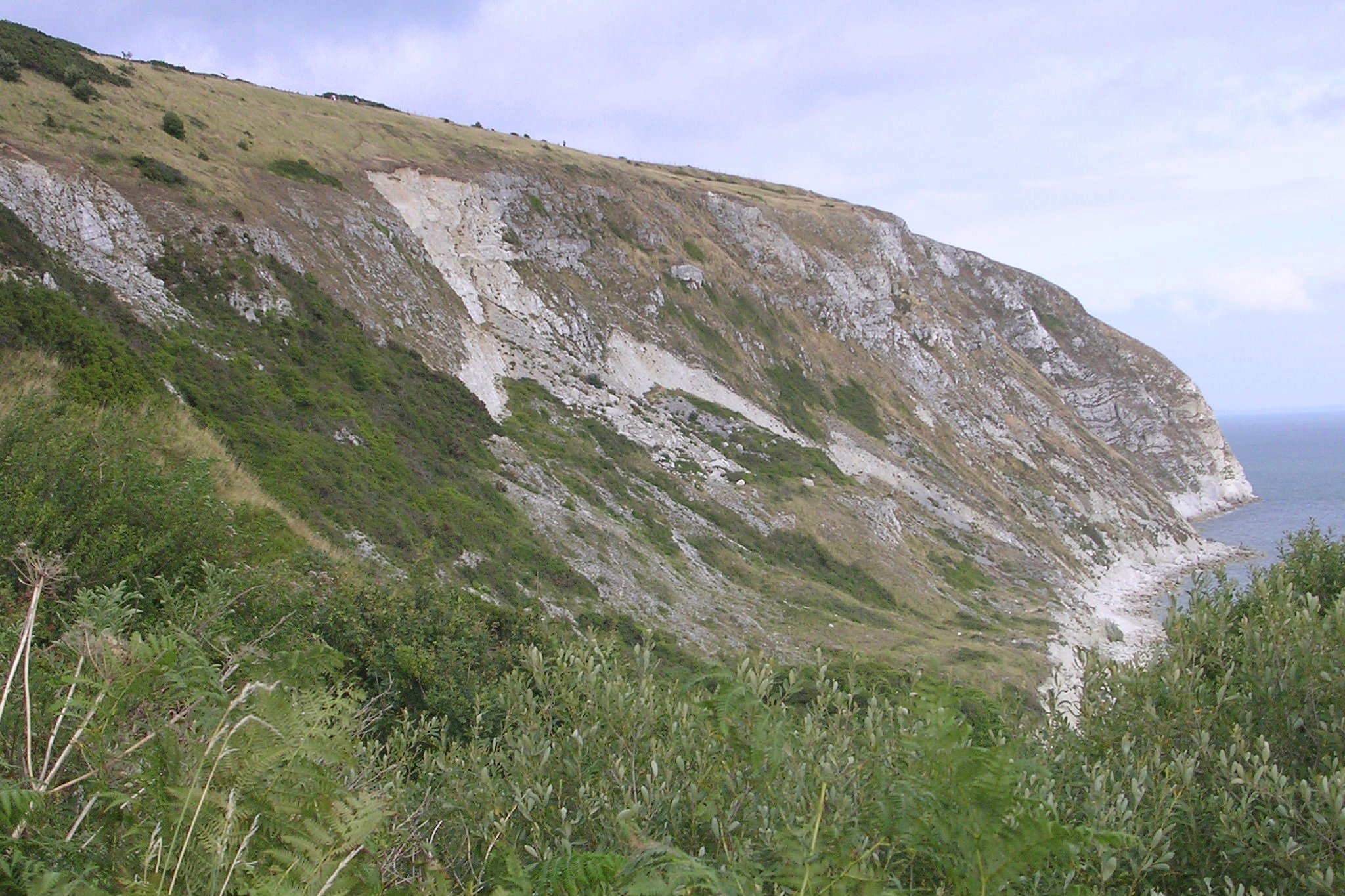 Ballard Cliff: a view looking northeast from the Coast Path as it descends from Ballard Down